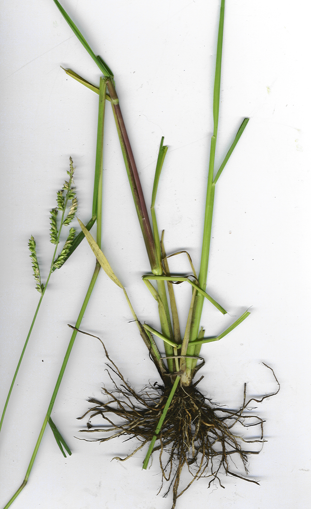 Echinochloa colona (plant). Location: Maui, Hana Hwy